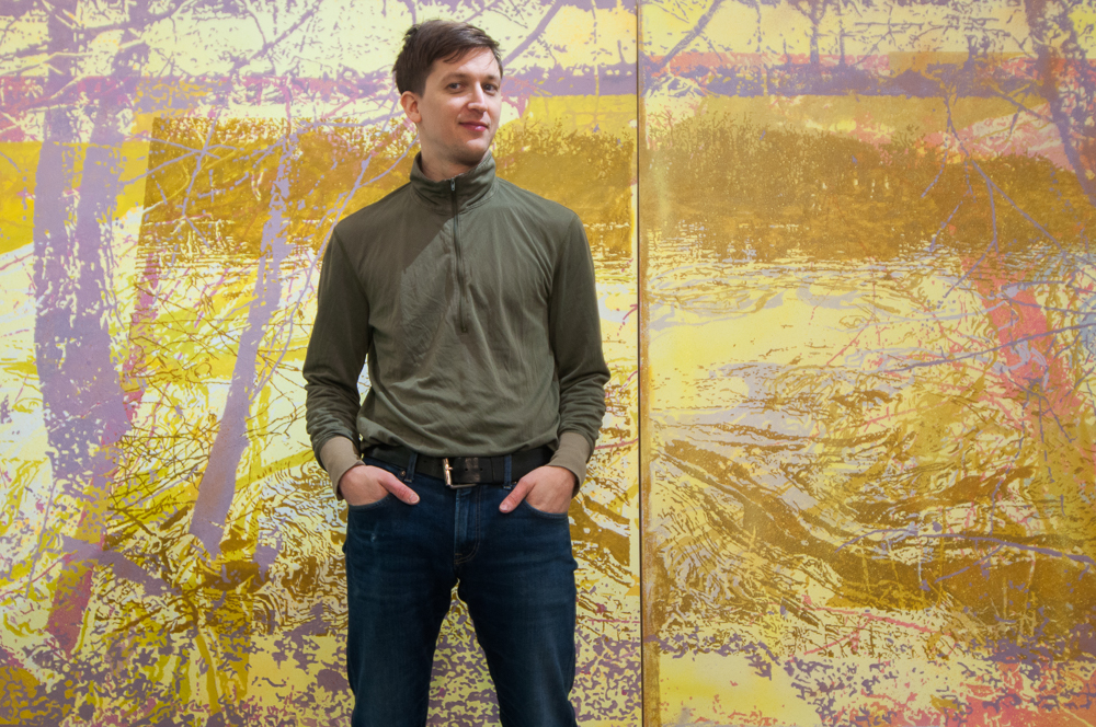 Greg Lindquist in his studio with Duke Energy's Dan River I (both 2014) and Duke Energy's Dan River II, 2017 (photo credit: Martha Tuttle)